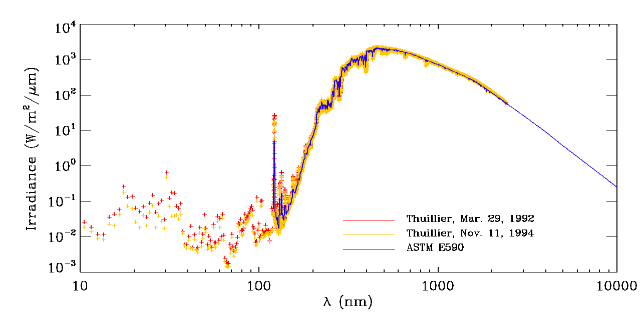 Solar spectral irradiance, intensity in logarithmic scale